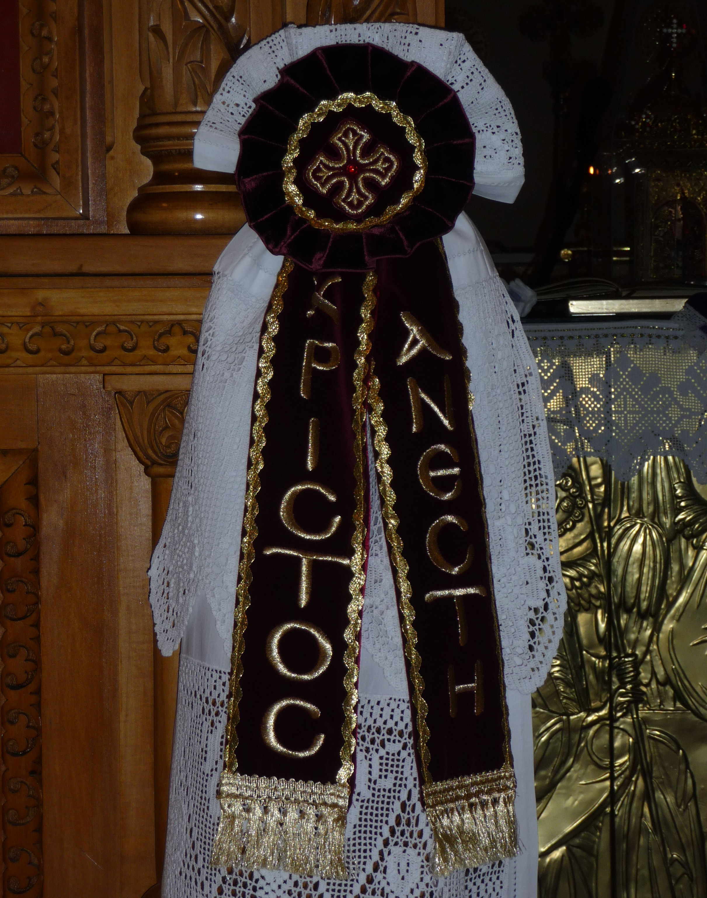 orthodox easter in Ludwigshafen, Germany